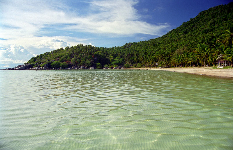 Sairee-Beach on Ko Tao, Thailand. Photo by Benutzer:Koki.